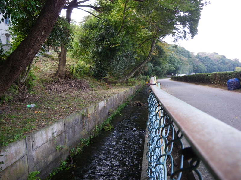 Hikinuma-yosui aqueduct at old Ōtawara Castle. Ōtawara, Tochigi, Japan.